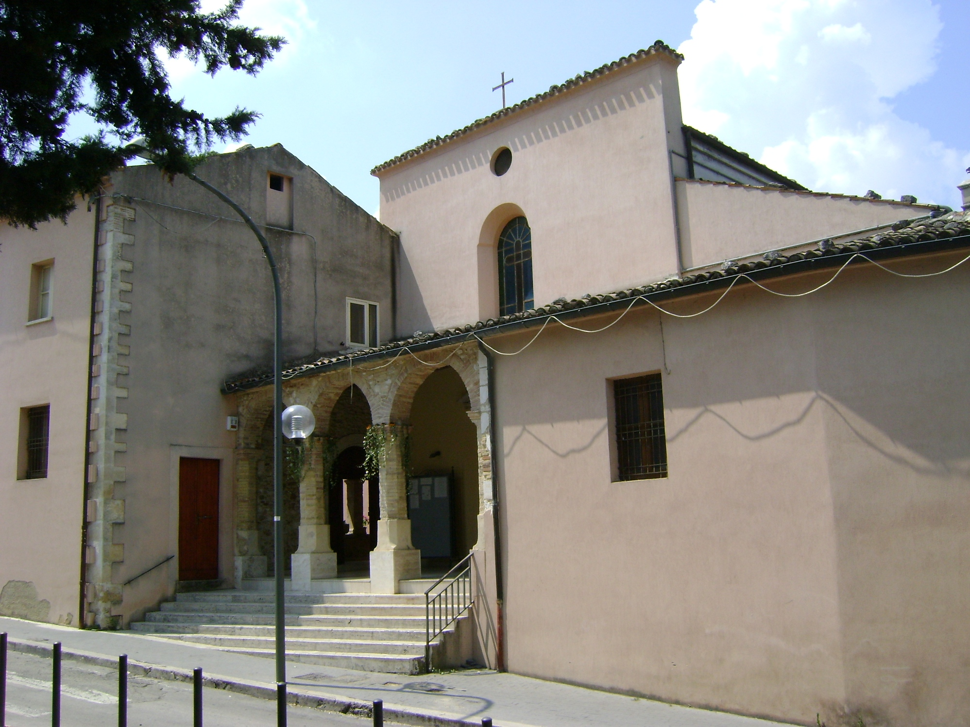 The church of Santa Maria del Popolo at the Capuchin monastery in Guardiagrele, in the province of Chieti, Abruzzo